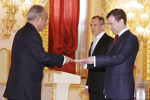 THE KREMLIN, MOSCOW. Presentation by foreign ambassadors of their letters of credence. Ambassador of the Republic of Djibouti Rachad Ahmed Saleh Farah presents his letter of credence to the President of Russia.